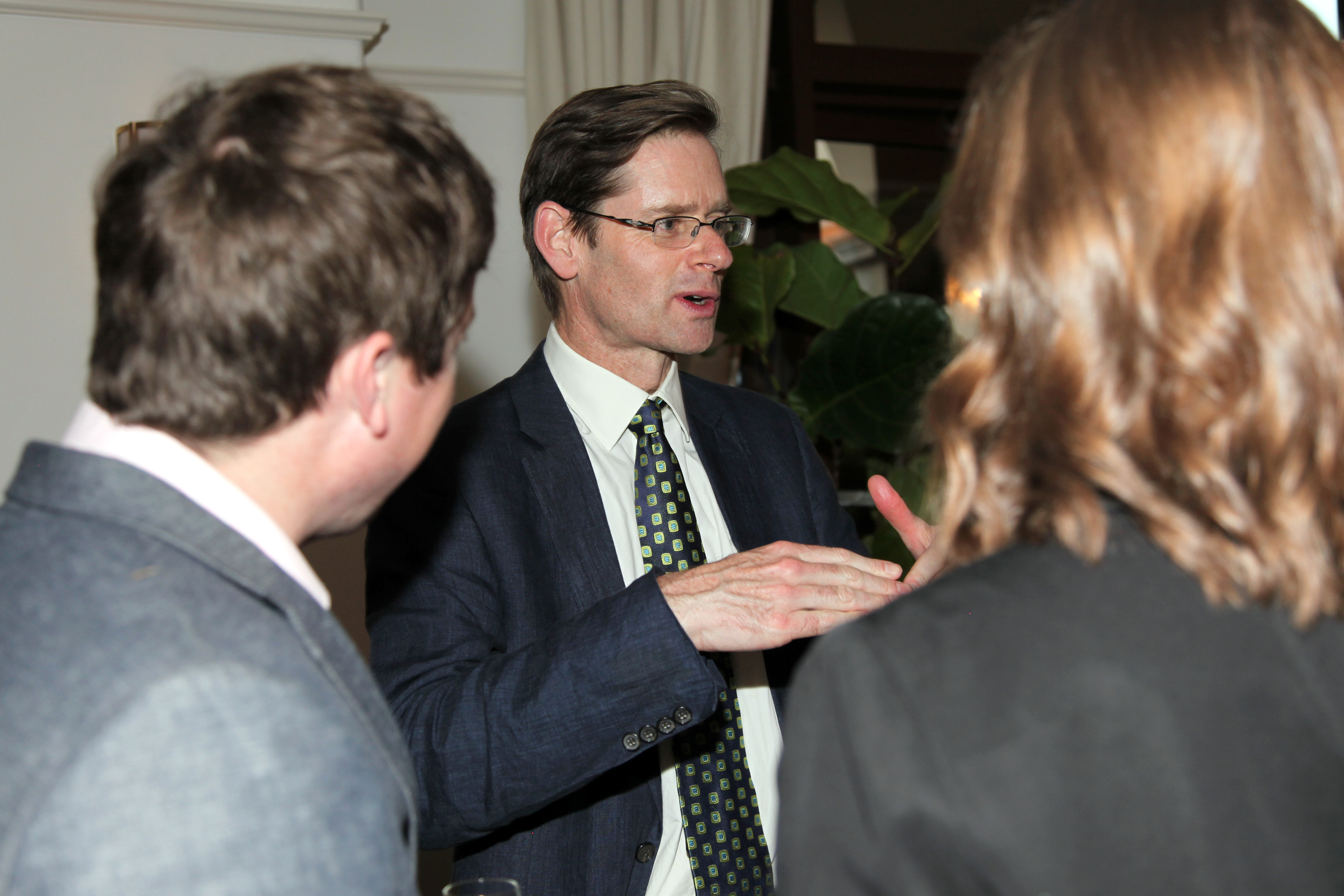 Alec Russell, FT Weekend editor, Berggruen Institute Event 41